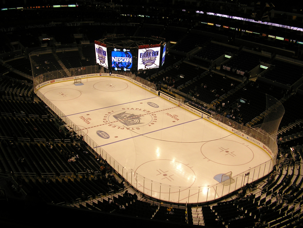 Staples Center minutes before the start of an LA Kings game. Taken by Jake N. on night of March 15, 2007's game between the Kings and the Chicago Blackhawks. This downscaled image from the original is licensed under terms of the CC-BY-2.5 license.